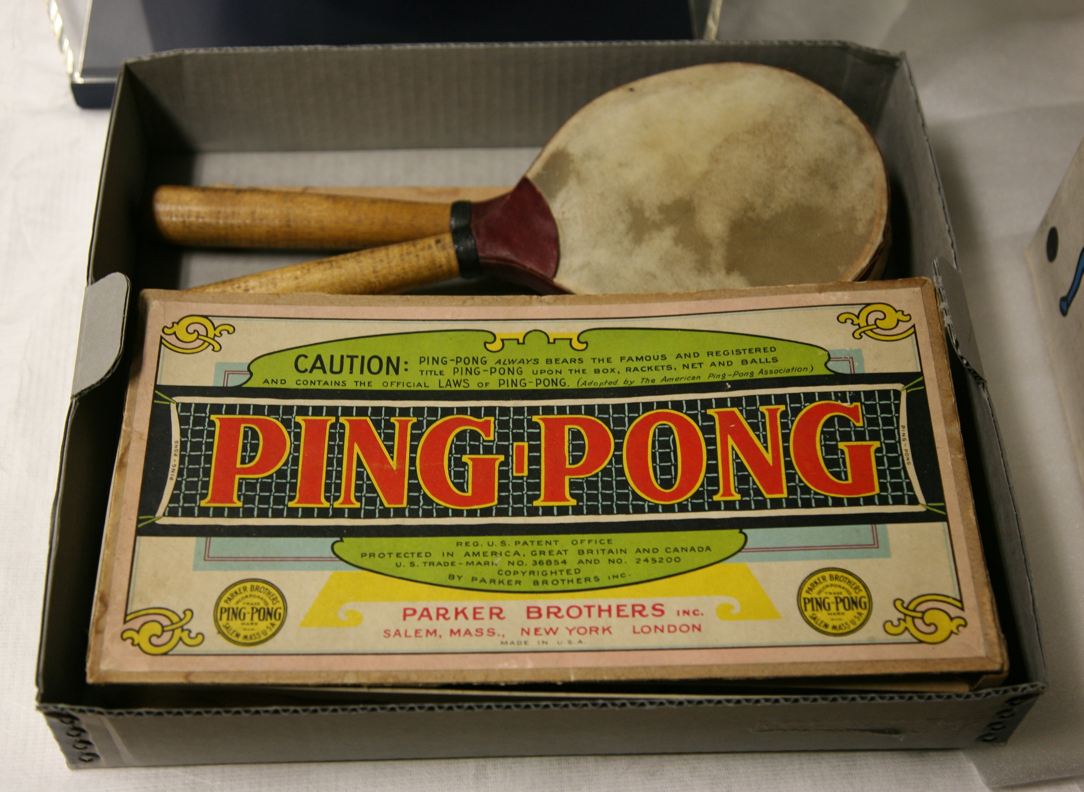 Ping-Pong game by Parker Brothers, The Children's Museum of Indianapolis.